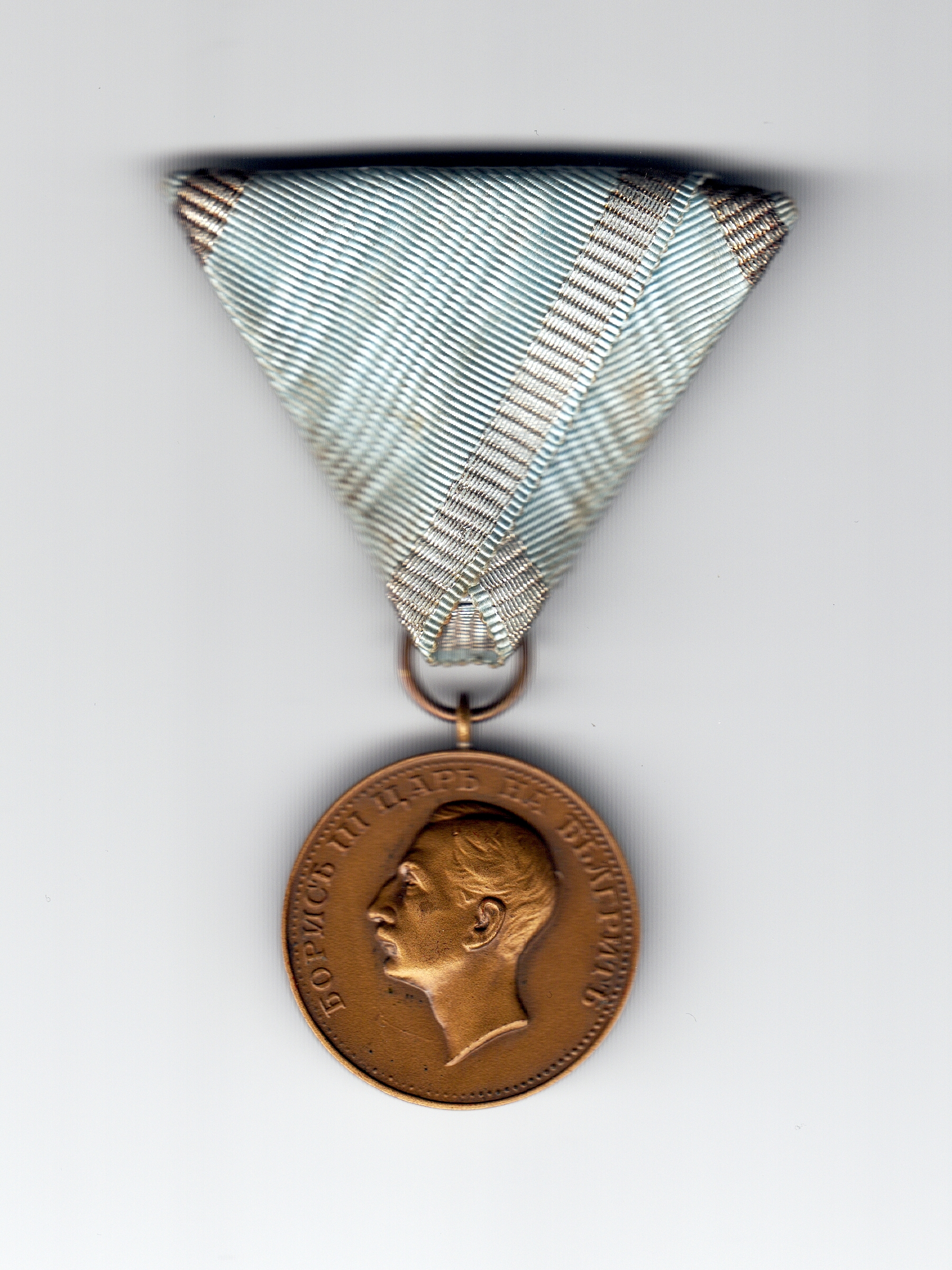 Order of Merit of Bulgaria